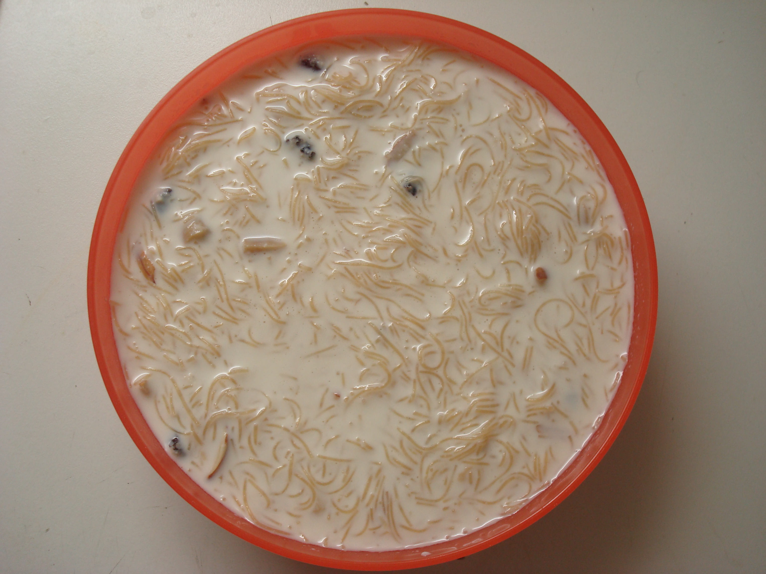 Shevayachi kheer